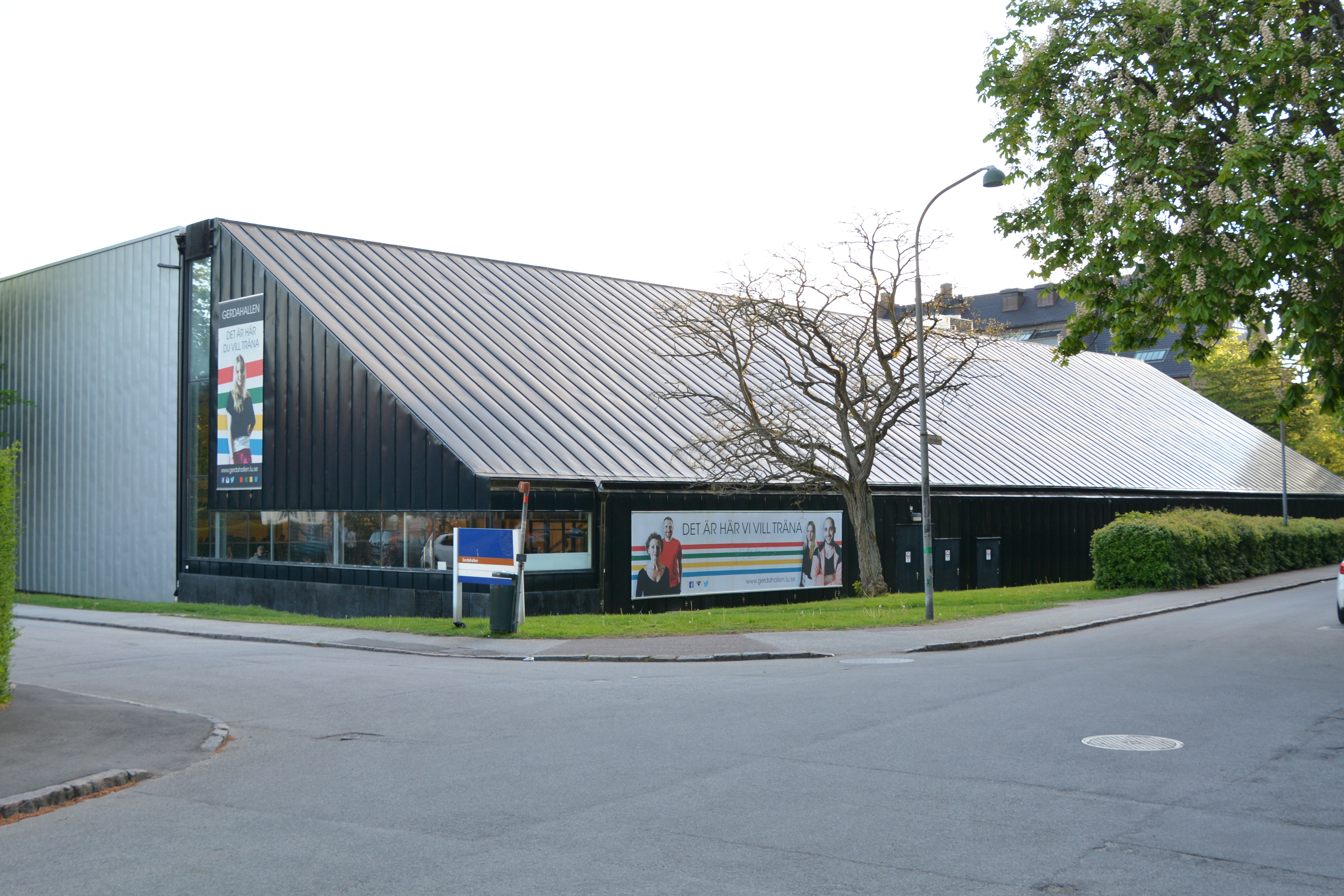 Gerdahallen